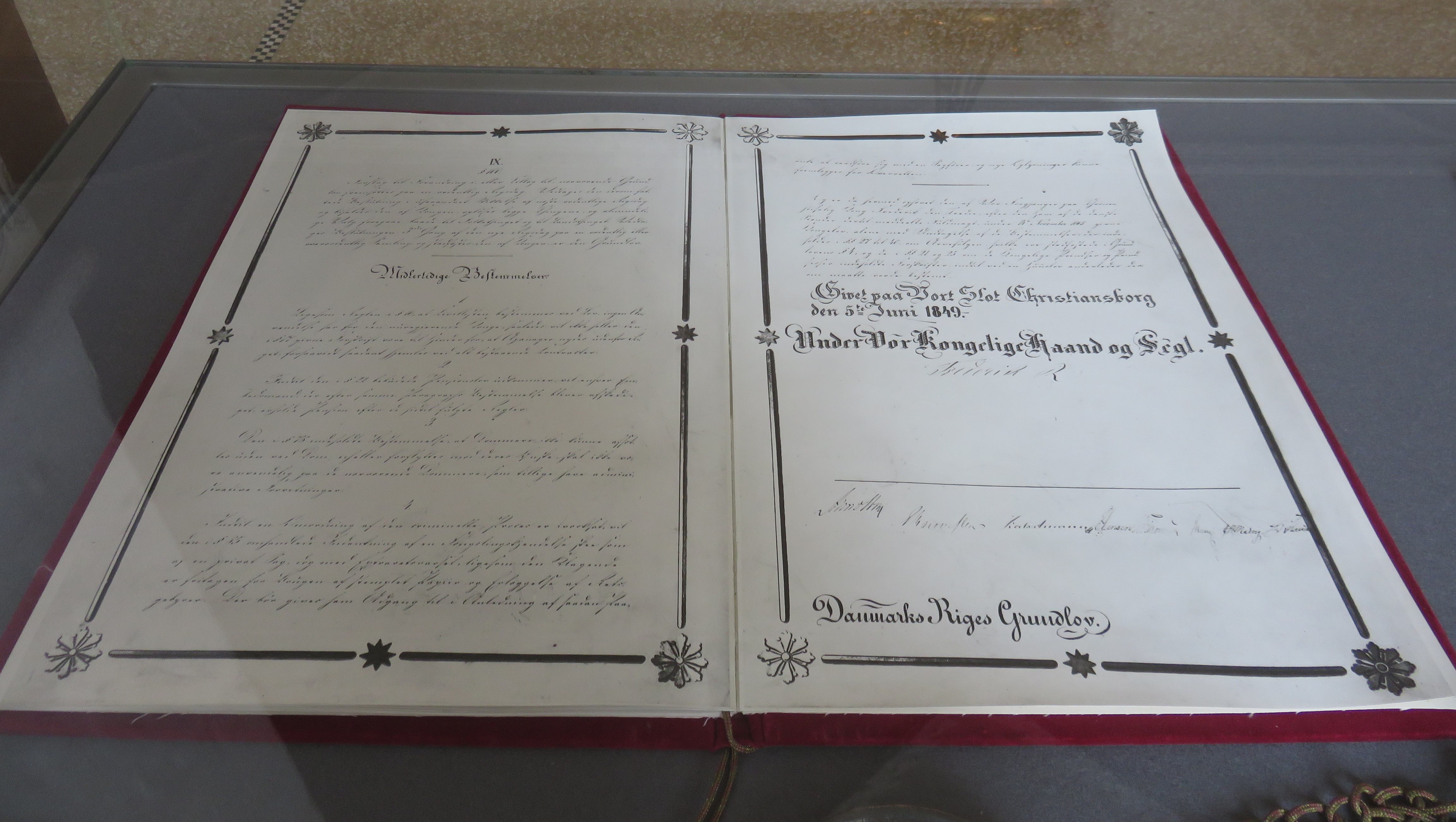 Danish Constitutional Act of 1849 displayed in the Lobby (Vandrehallen) in Christiansborg Palace, Copenhagen, Denmark in 2018